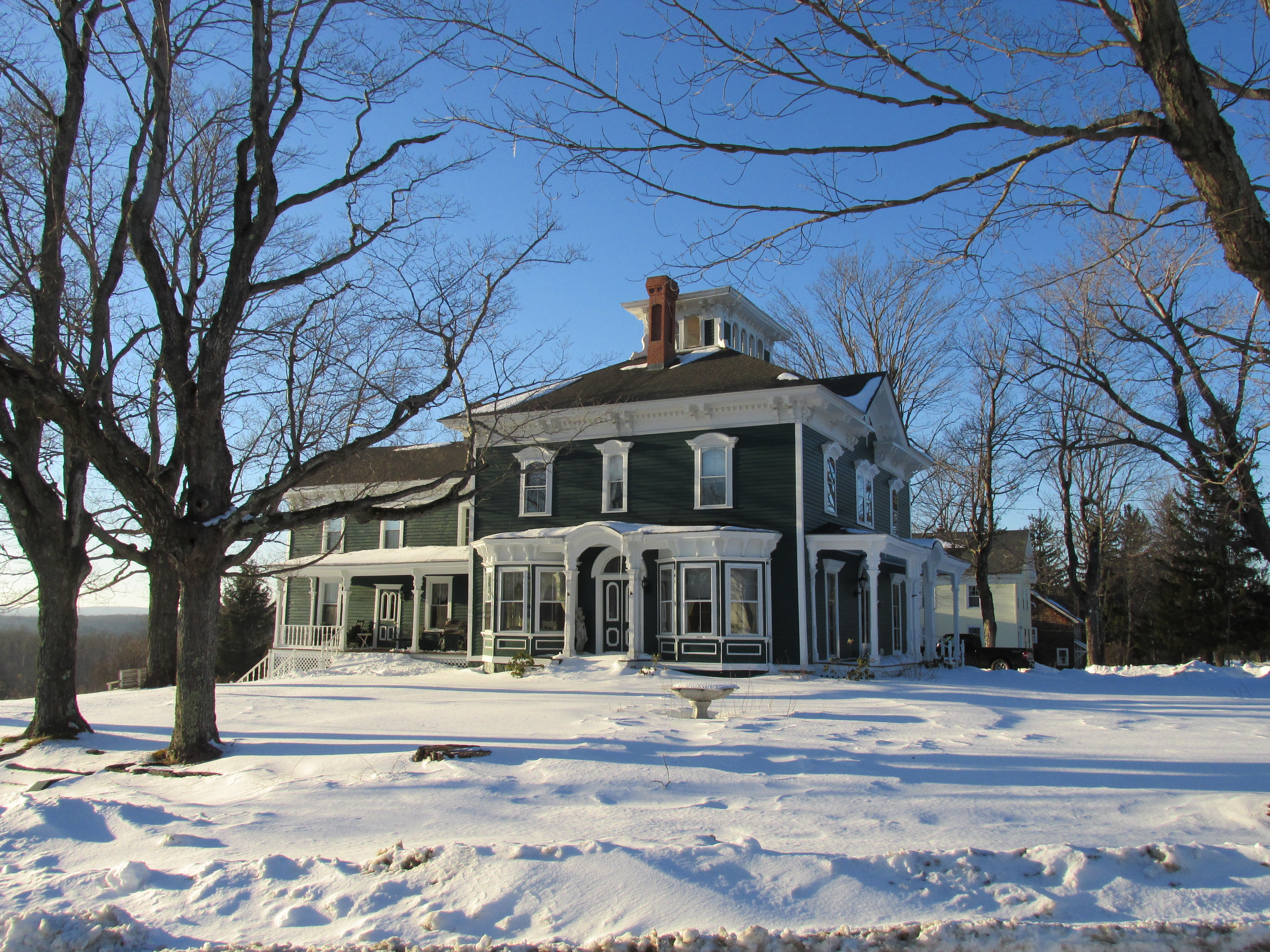 The Big House, built 1869, Middlefield Massachusetts